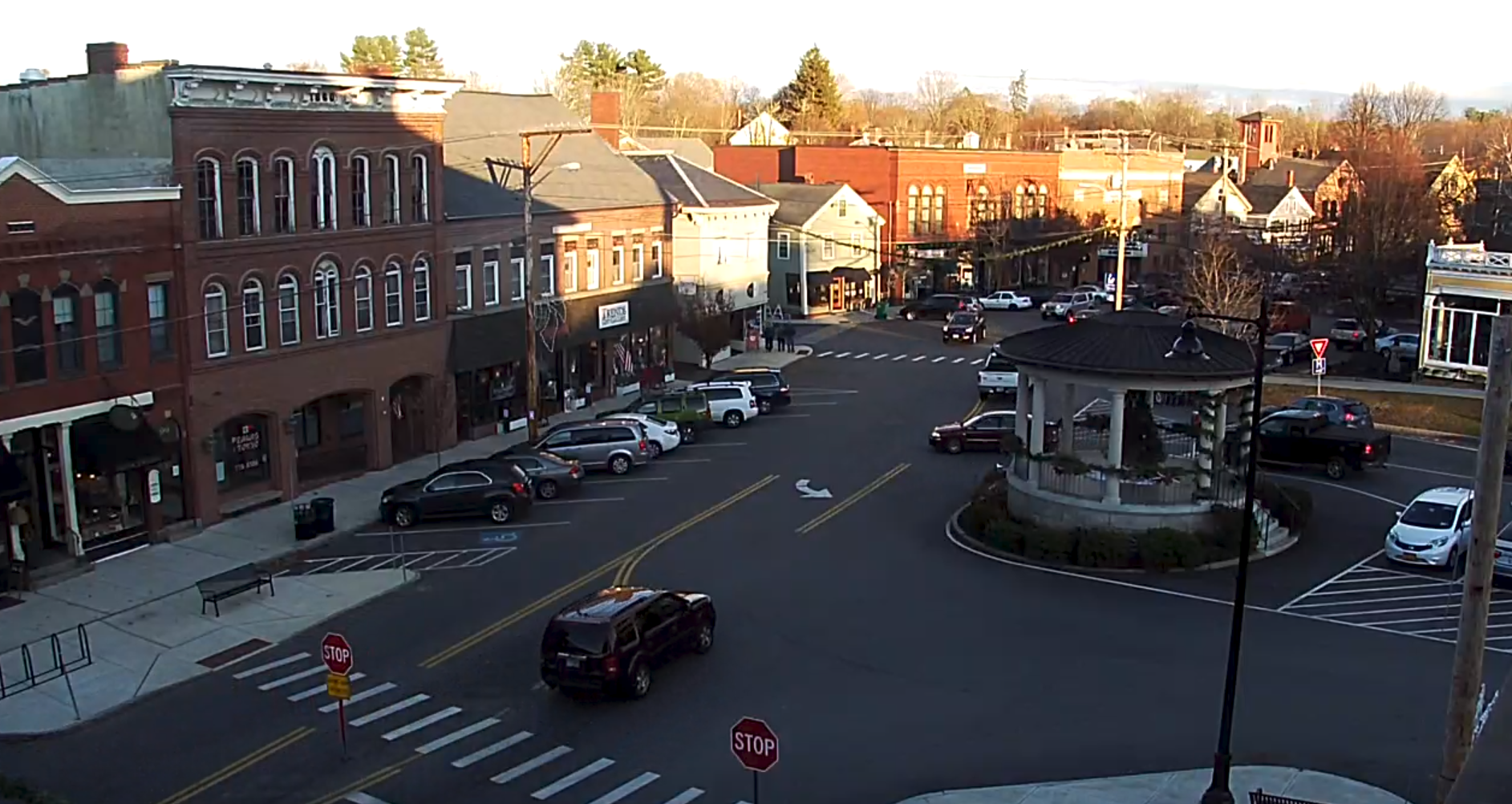 Downtown Exeter